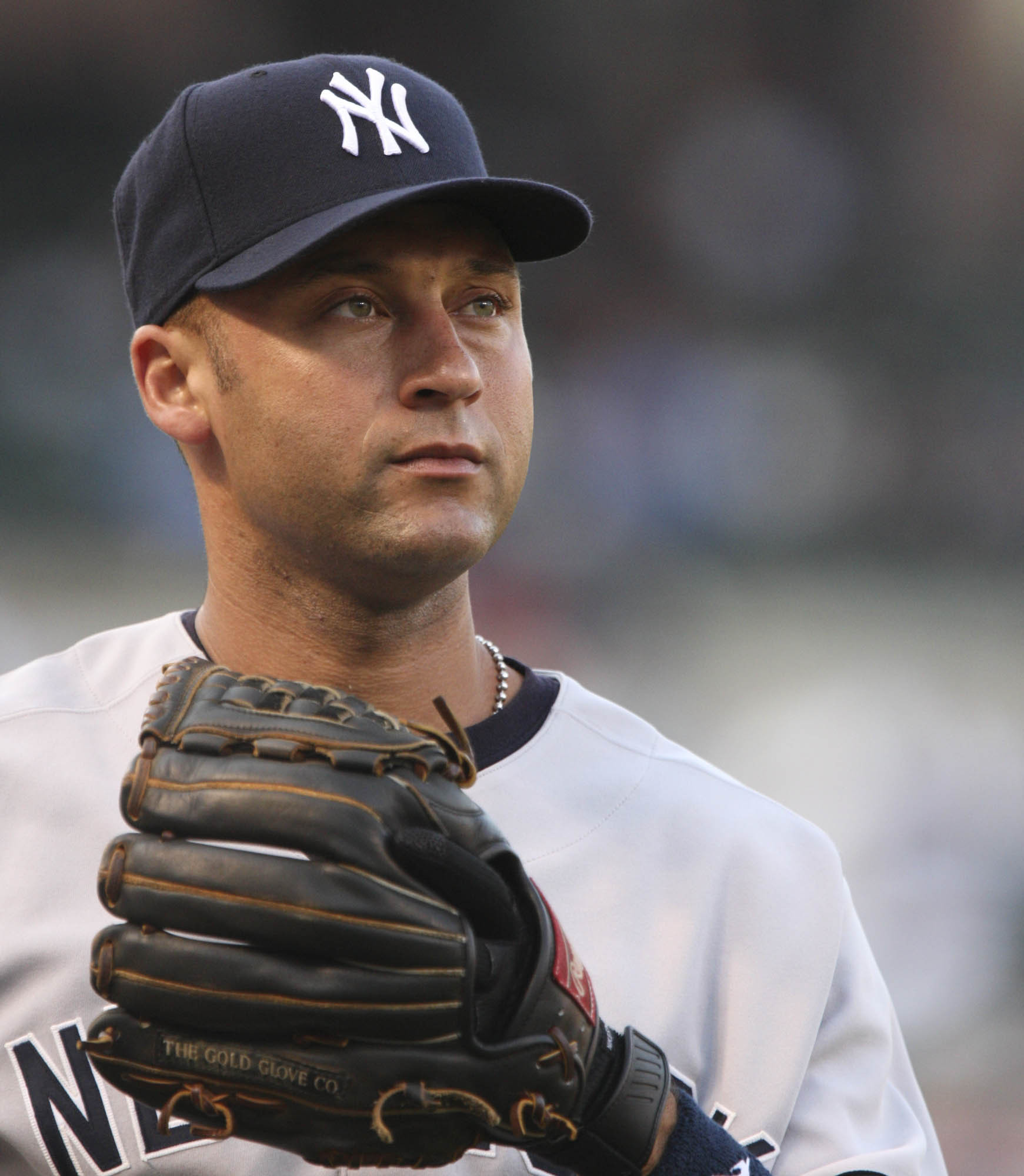 New York Yankees Derek Jeter warming up before a game against the Baltimore Orioles on Thursday, June 28, 2007 in Baltimore.